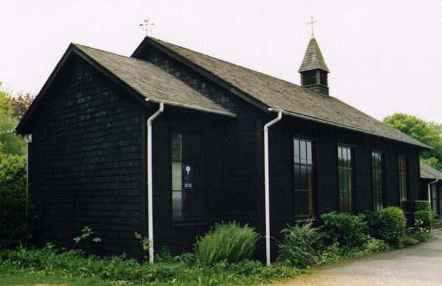 St Mary's church, Everton, Hampshire